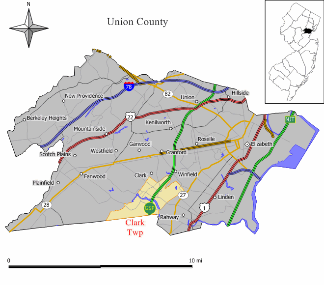 Source: Jim Irwin Original work by Jim Irwin, December 2005.